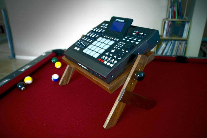 AKAI MPC5000